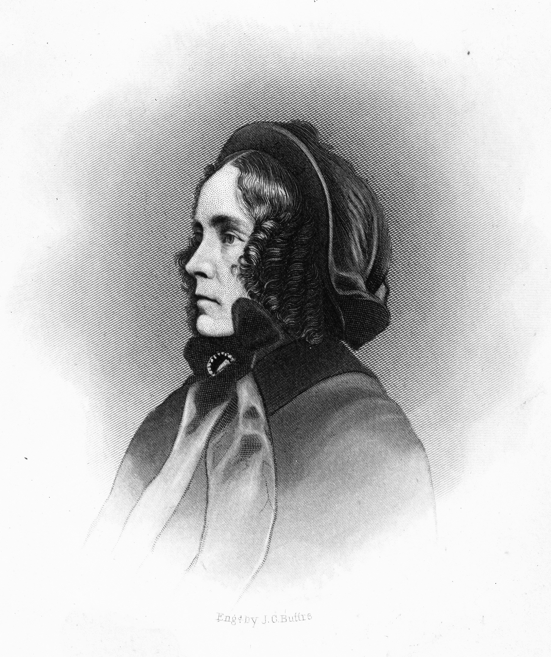 Profile engraving of Jane Pierce (1806–1863), wife of Franklin Pierce, 14th president of the United States.